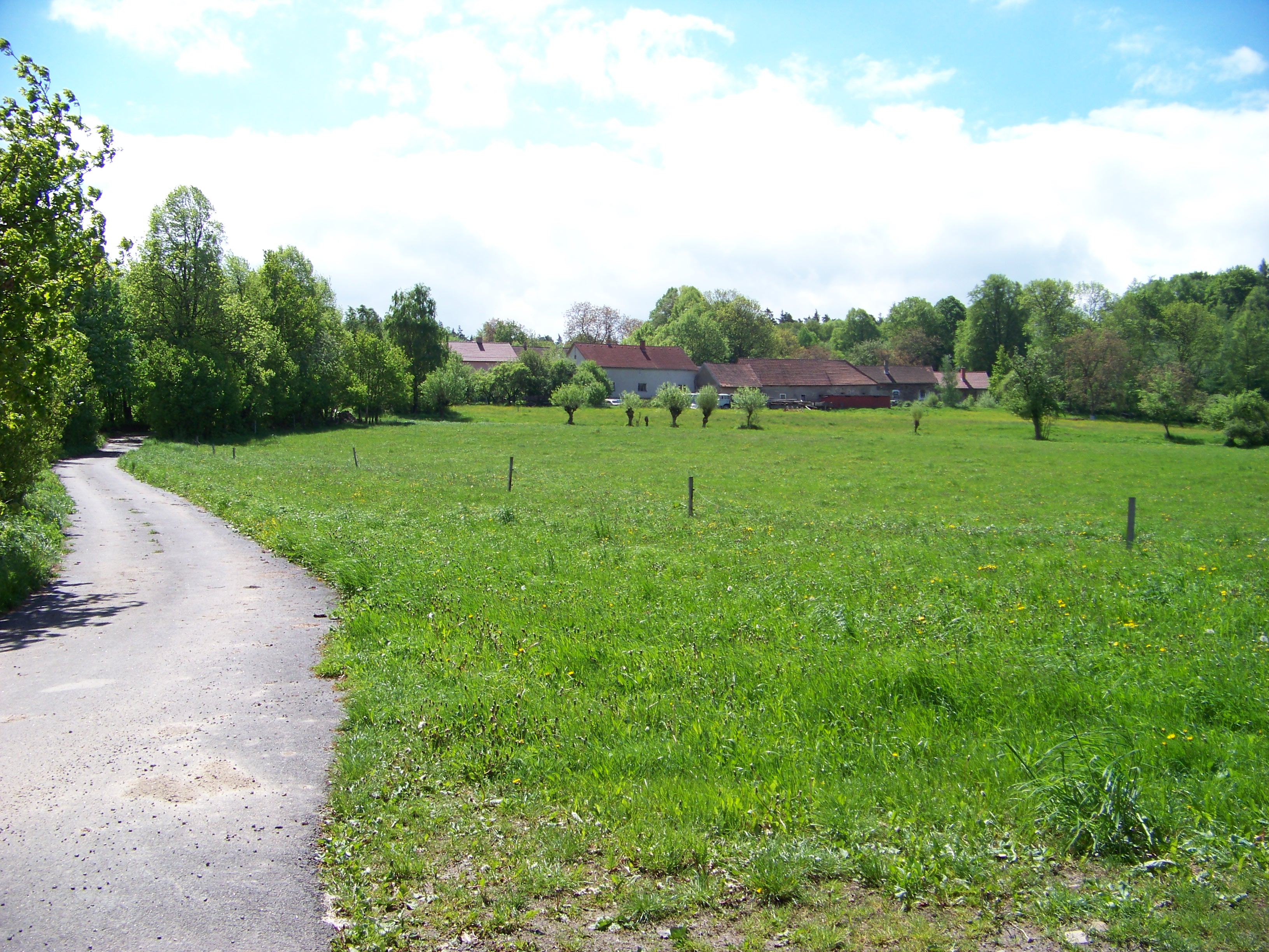 Vojkov-Lhotka, Benešov District, Central Bohemian Region, the Czech Republic.